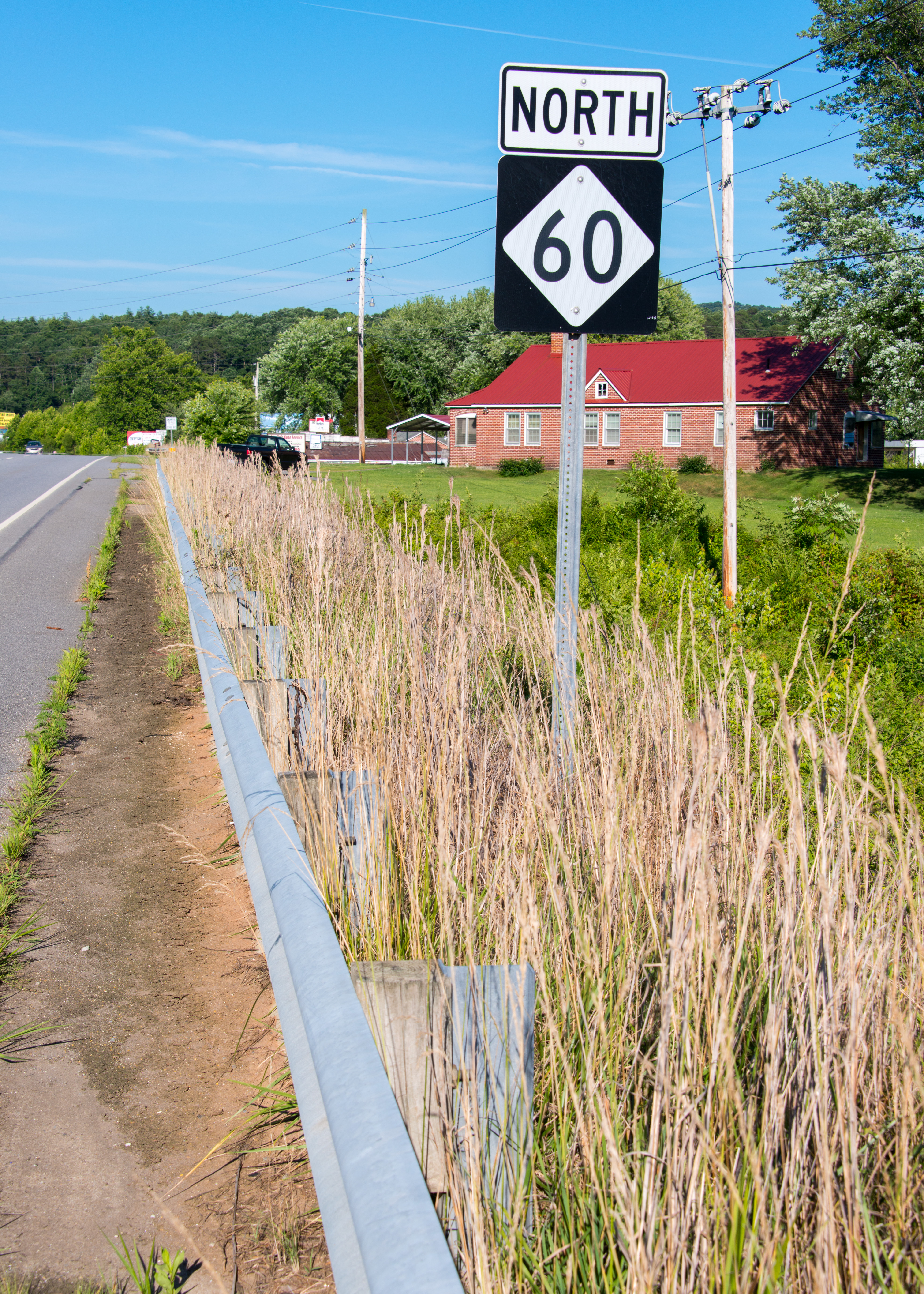 Only sign of North Carolina Highway 60 on entire stretch of highway marked for it, near Culberson.